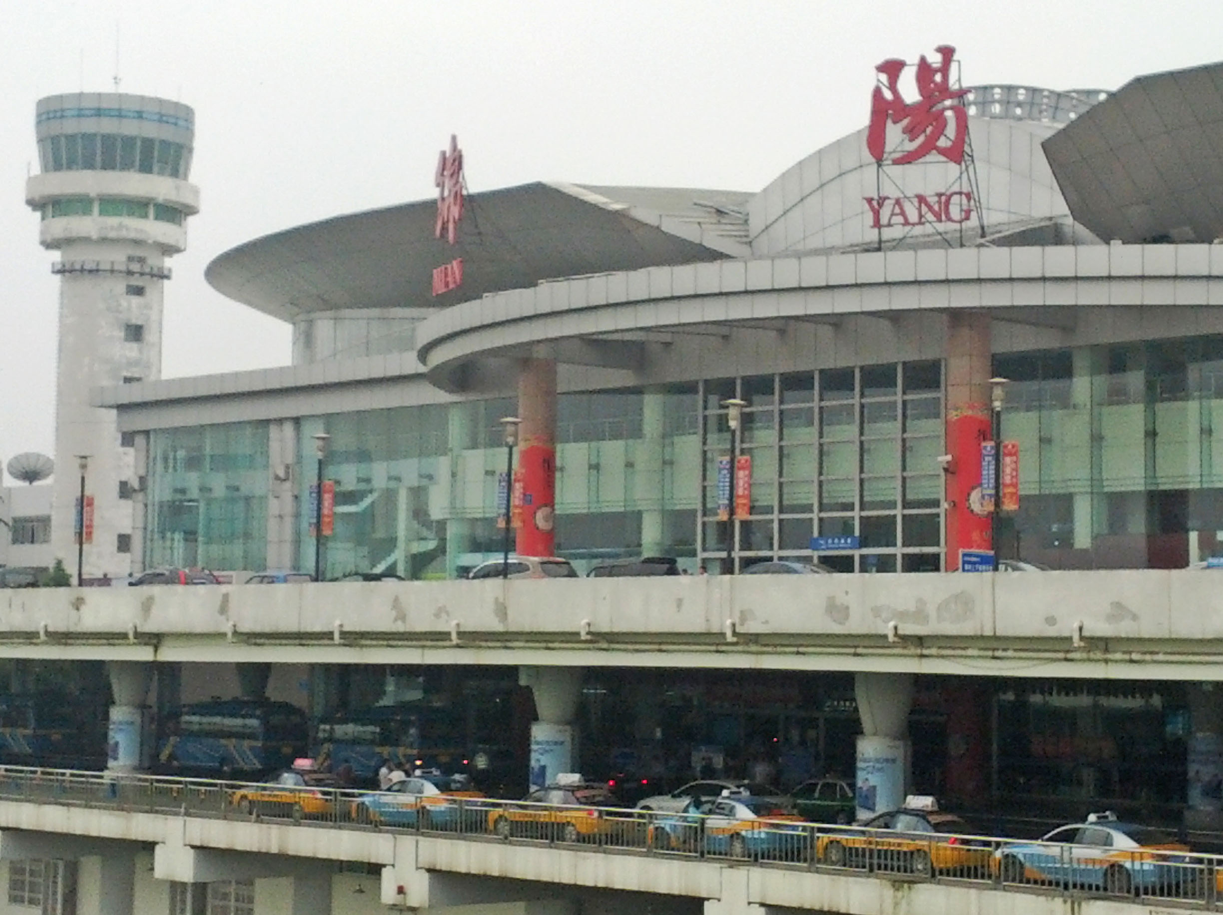 Looking south at Mianyang Nanjiao Airport (IATA: MIG) at around noon local time. +20% contrast and +20% lighten shadows in Adobe Photoshop Elements 6.0